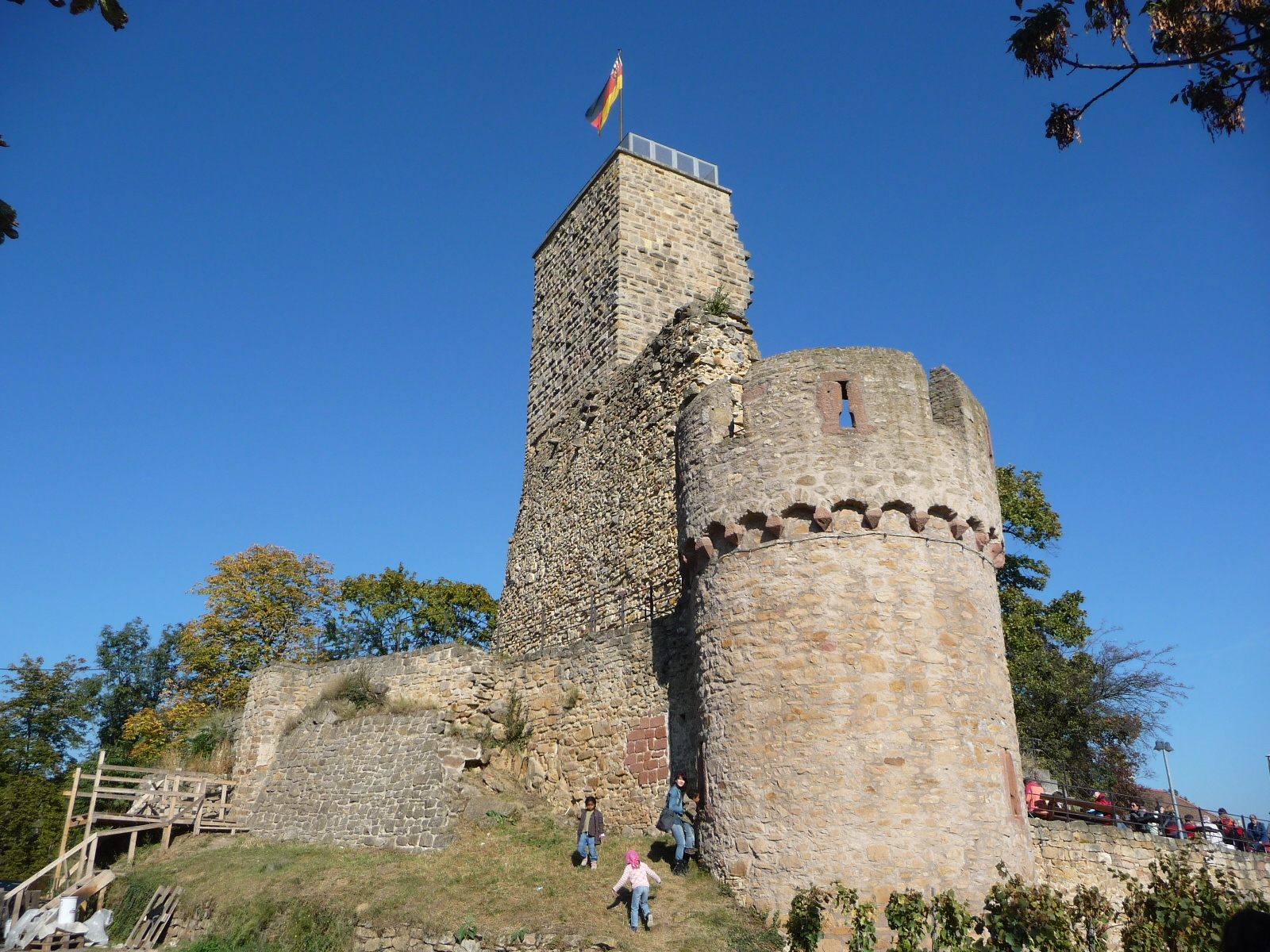 Wachtenburg